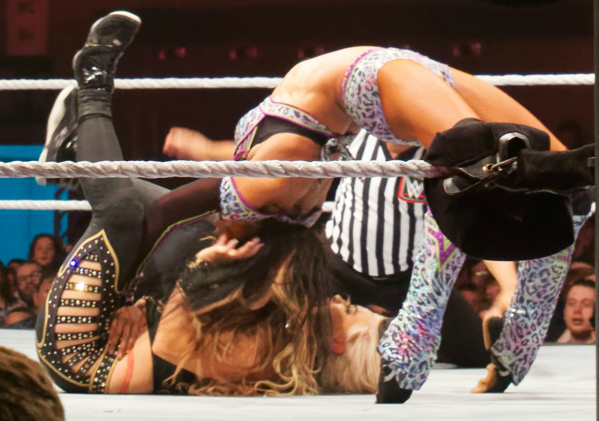 Alicia Fox performing her signature "Northern lights suplex" on Dana Brooke during a WWE live event in May 12, 2017.